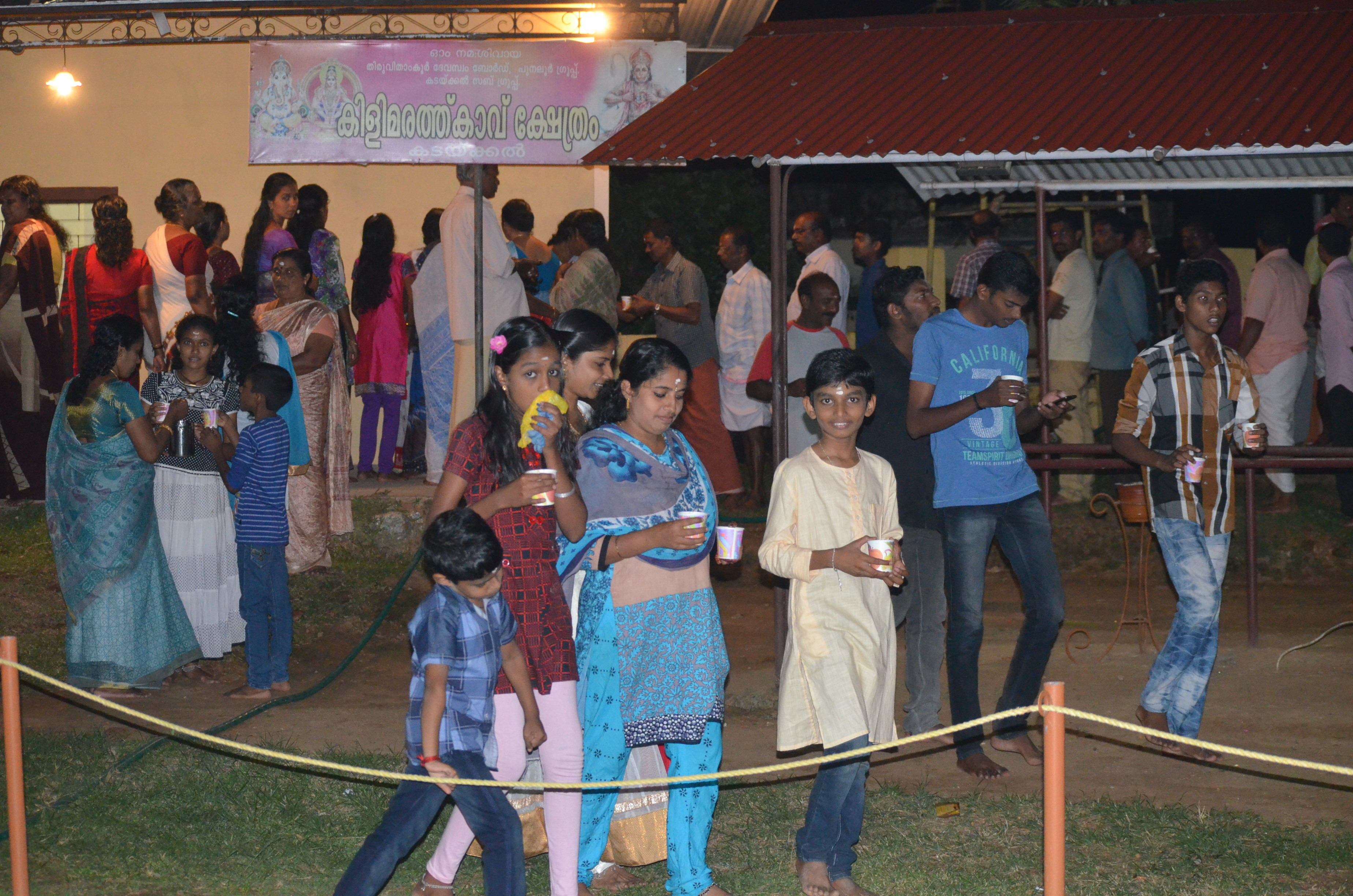 Aushadha Kanji